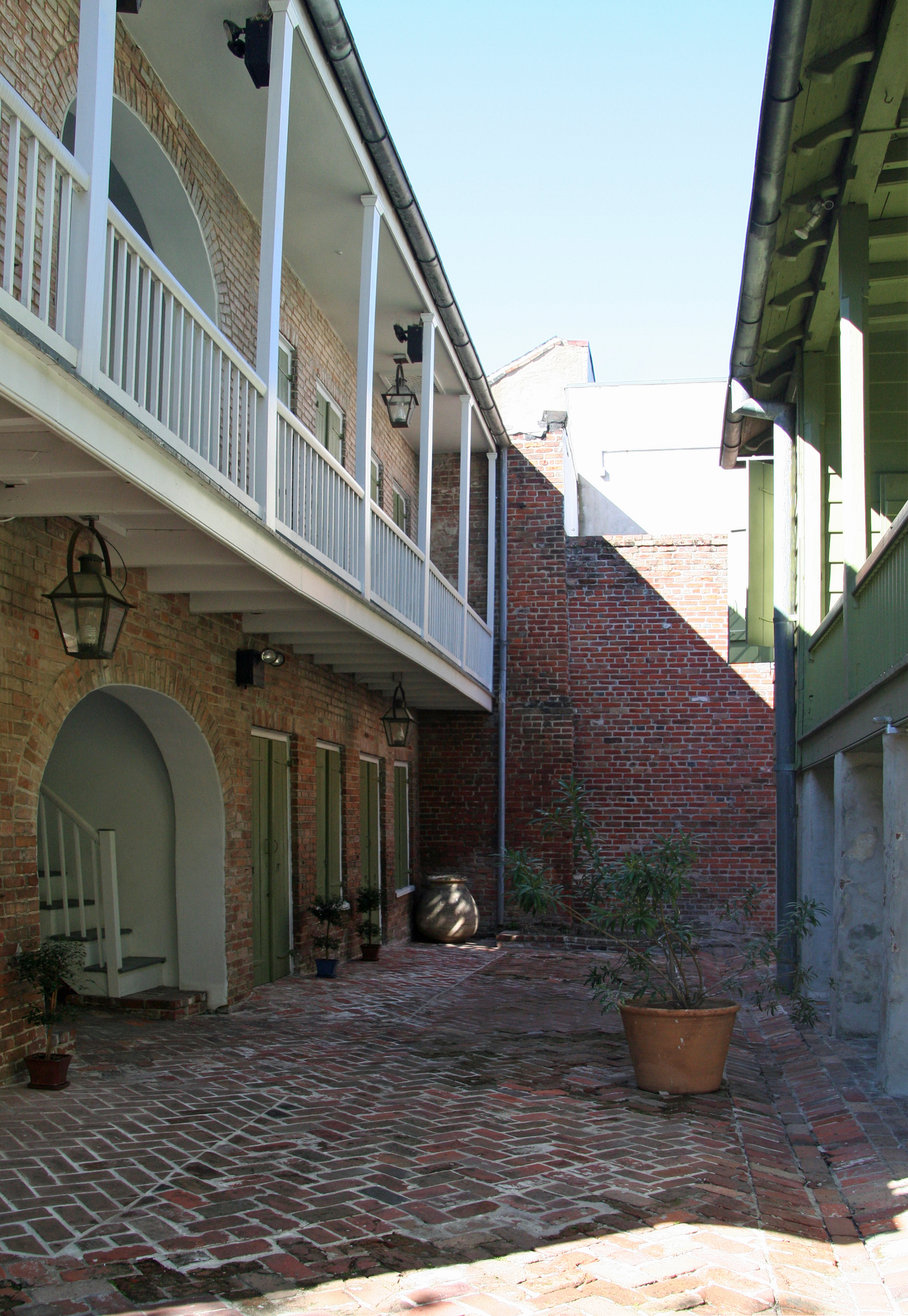 Madame John's Legacy